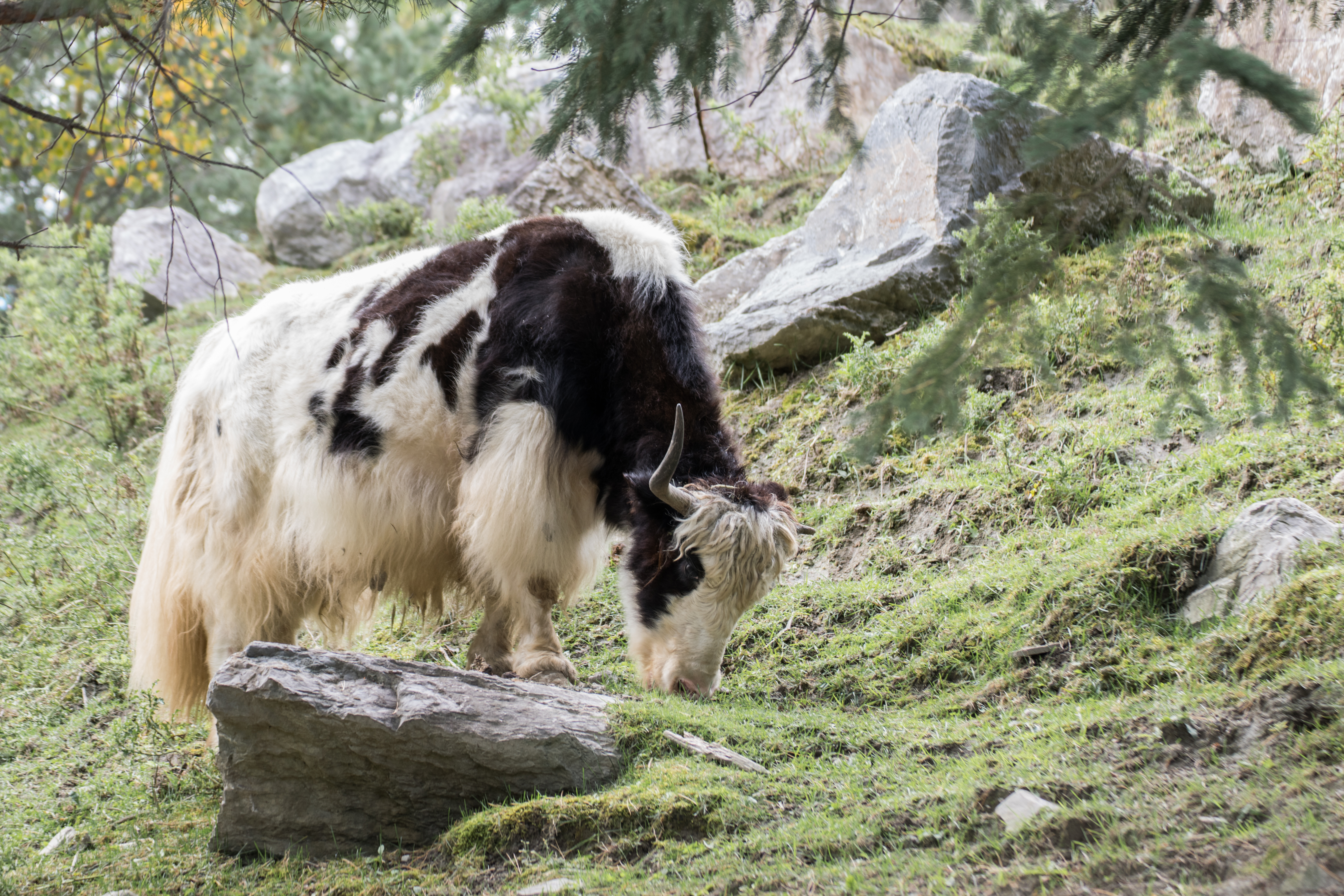 A domestic yak at the Wild Zoo of St-Félicien (Quebec, Canada).